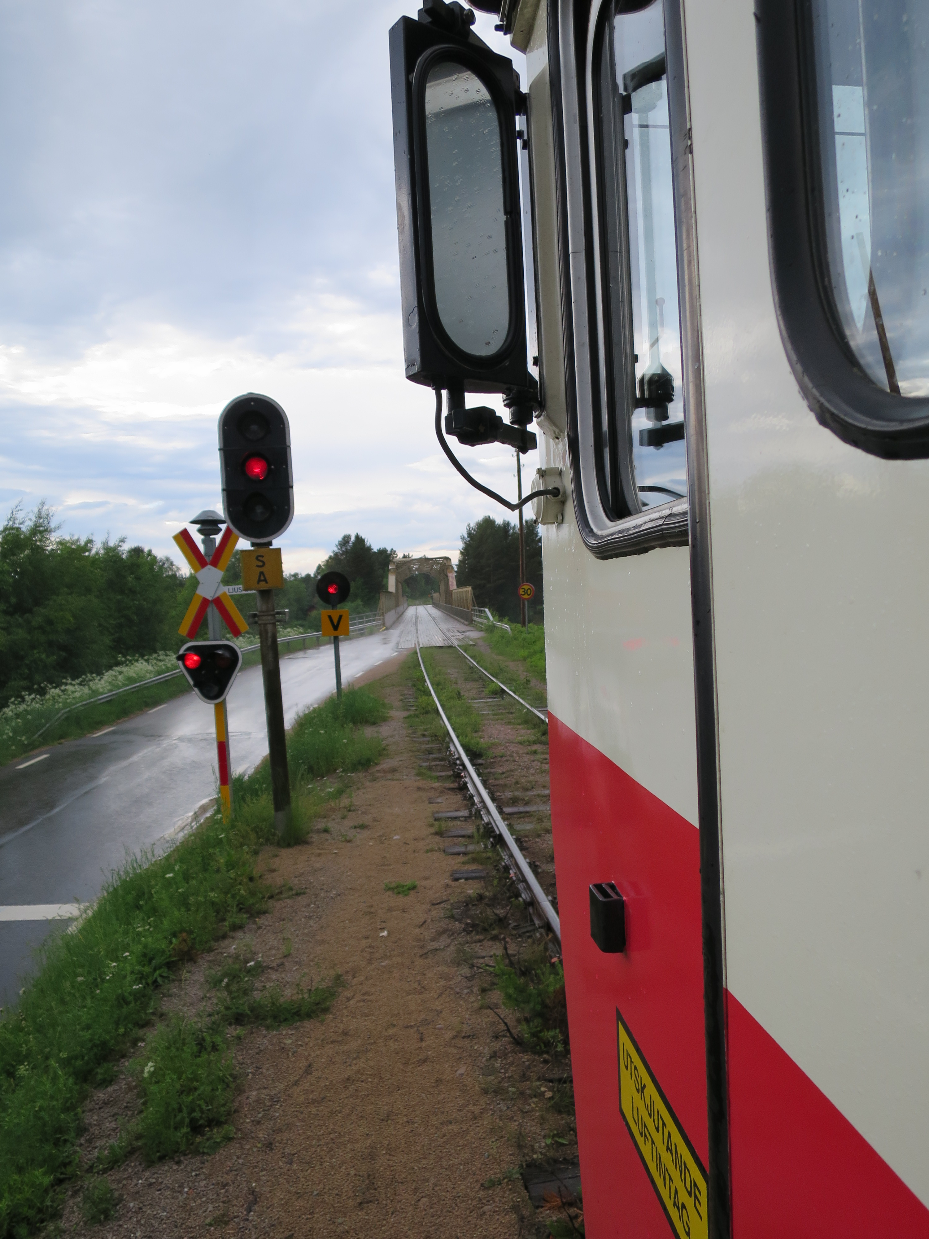 Merging of rail and road for crossing the Mankell Bridge on Inlandsbanan, Sweden